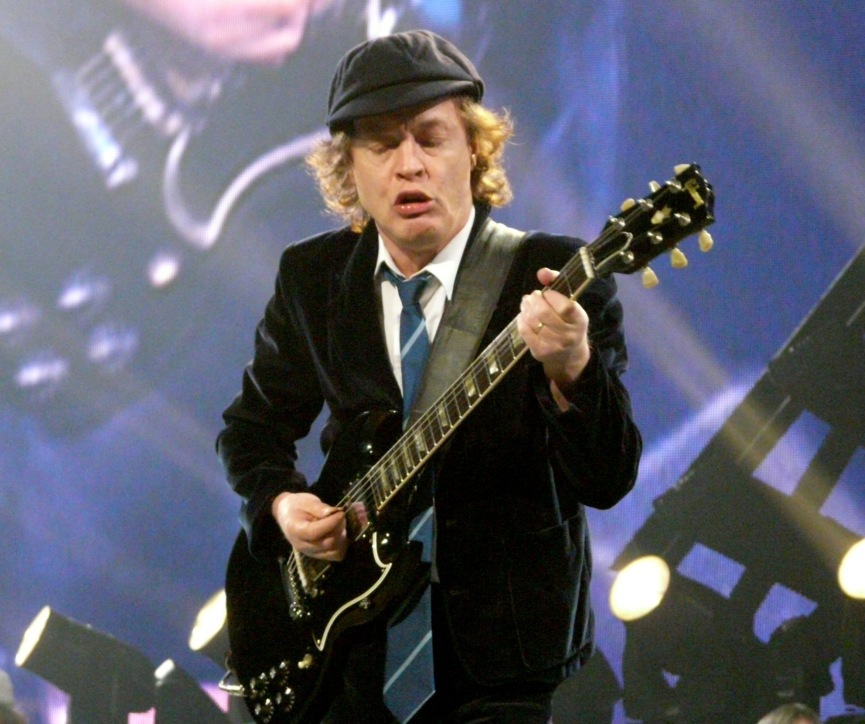 ANGUS YOUNG Angus Young live with AC/DC on November 23, 2008 in St. Paul, MN PHOTO BY MATT BECKER